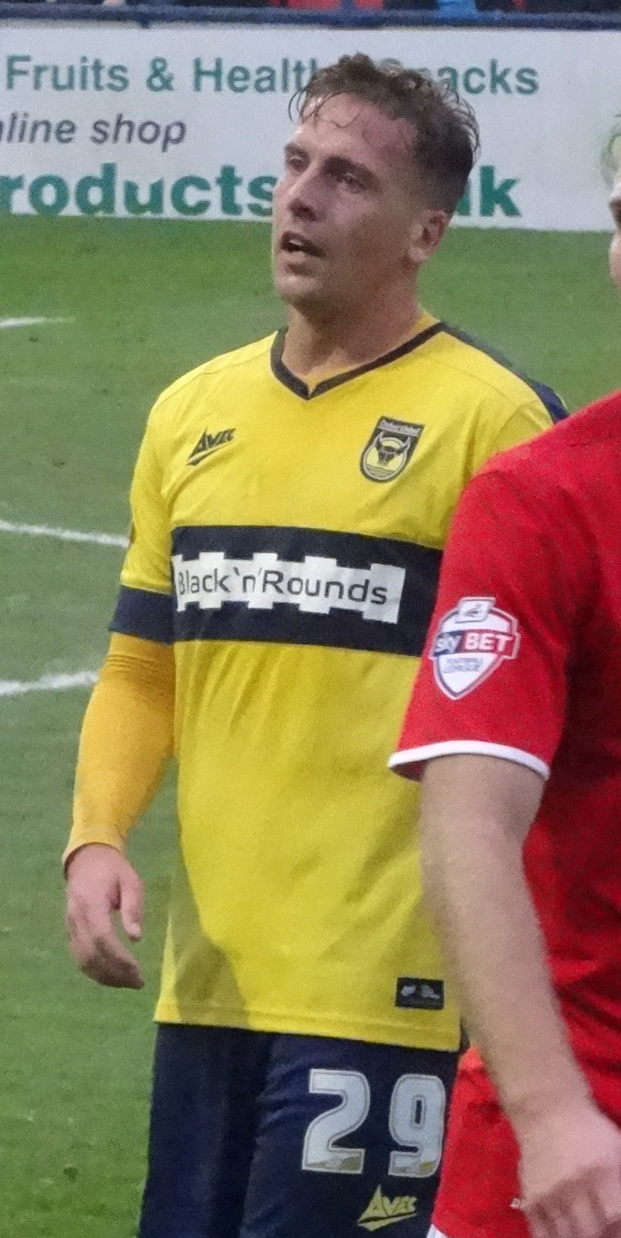 Brian Howard playing for Oxford United against York City at Bootham Crescent, York on 15 November 2014